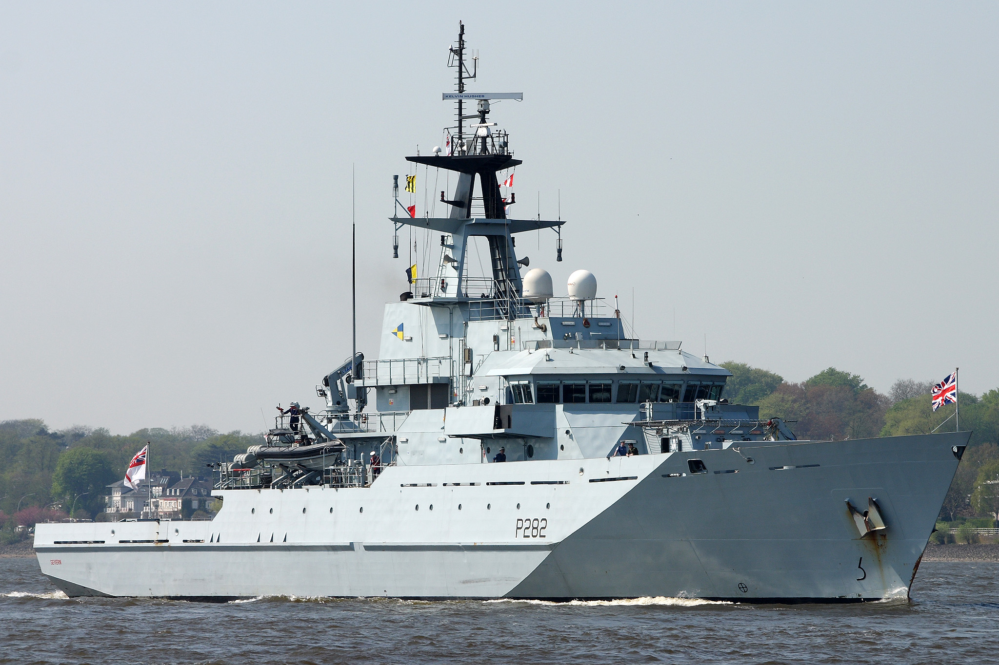 HMS Severn (P282), a River class offshore patrol vessel of the British Royal Navy, on the river Elbe in Hamburg, Germany.